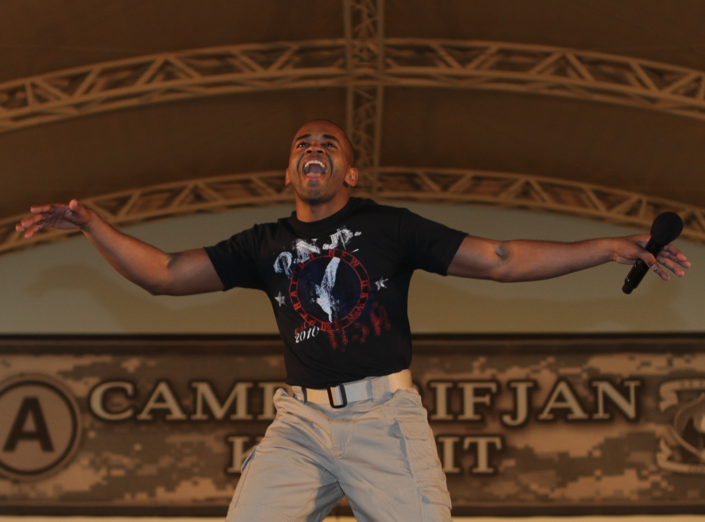 U.S. Army Sgt. 1st Class Colin Eaton, a vocalist for the U.S. Army Band Downrange, dances for the audience during his solo as part of the Sergeant Major of the Army's Hope and Freedom Tour 2010 at Camp Arifjan, Kuwait, Dec. 15, 2010. This year's tour features Leeann Tweeden, Keni Thomas, Alana Grace, Buddy Jewel, Chonda Pierce, and others, and members of the tour are scheduled to visit Service members at various camps and forward operating bases in Kuwait, Iraq and Afghanistan over the next several days.